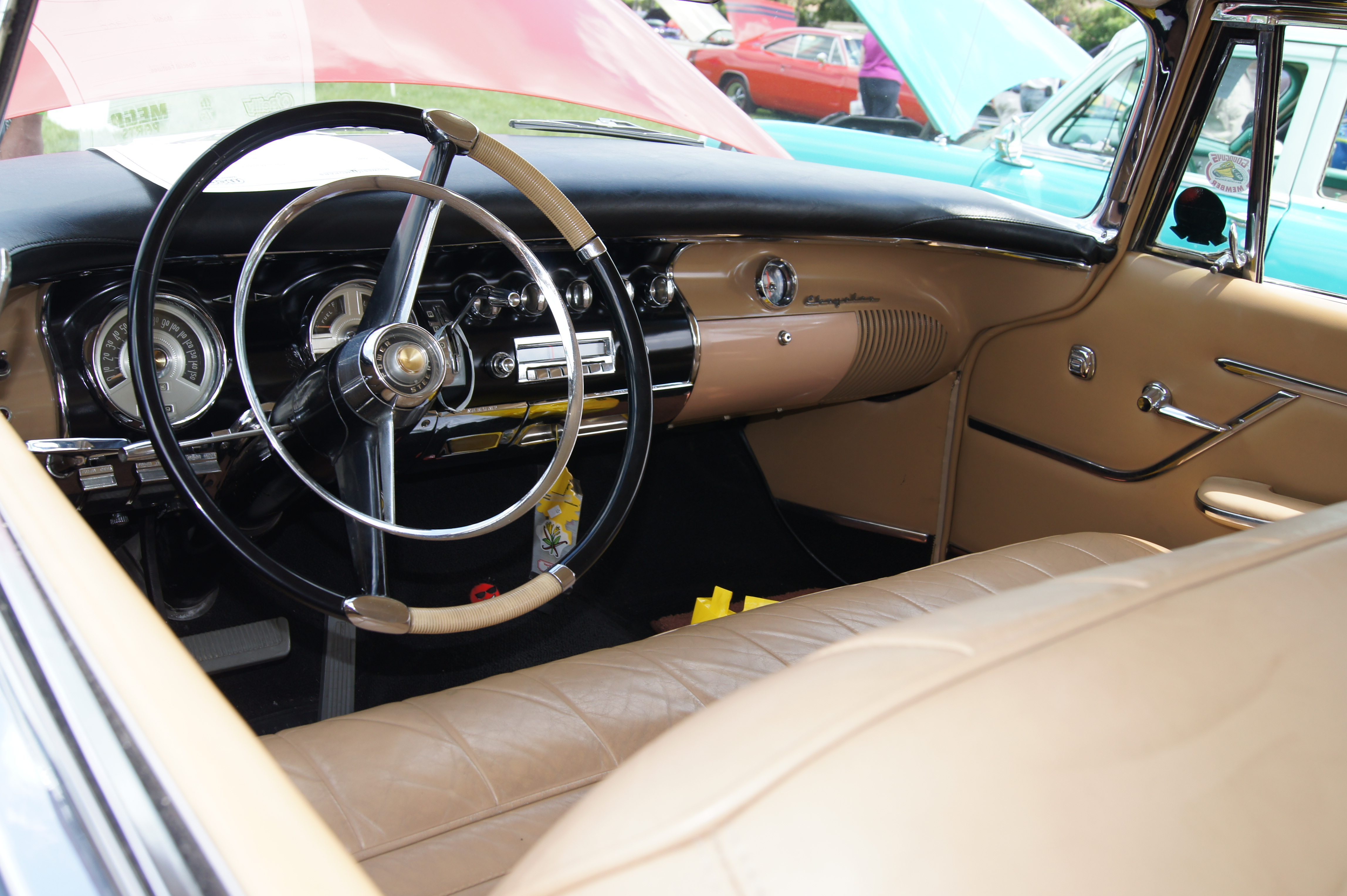 28th Annual Midwest Mopars in the Park June 2, 2012